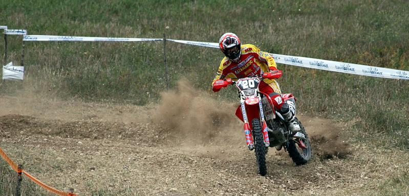 Mika Ahola riding his Honda E1 bike at the 2008 World Enduro Championship Grand Prix of Italy in Piediluco.